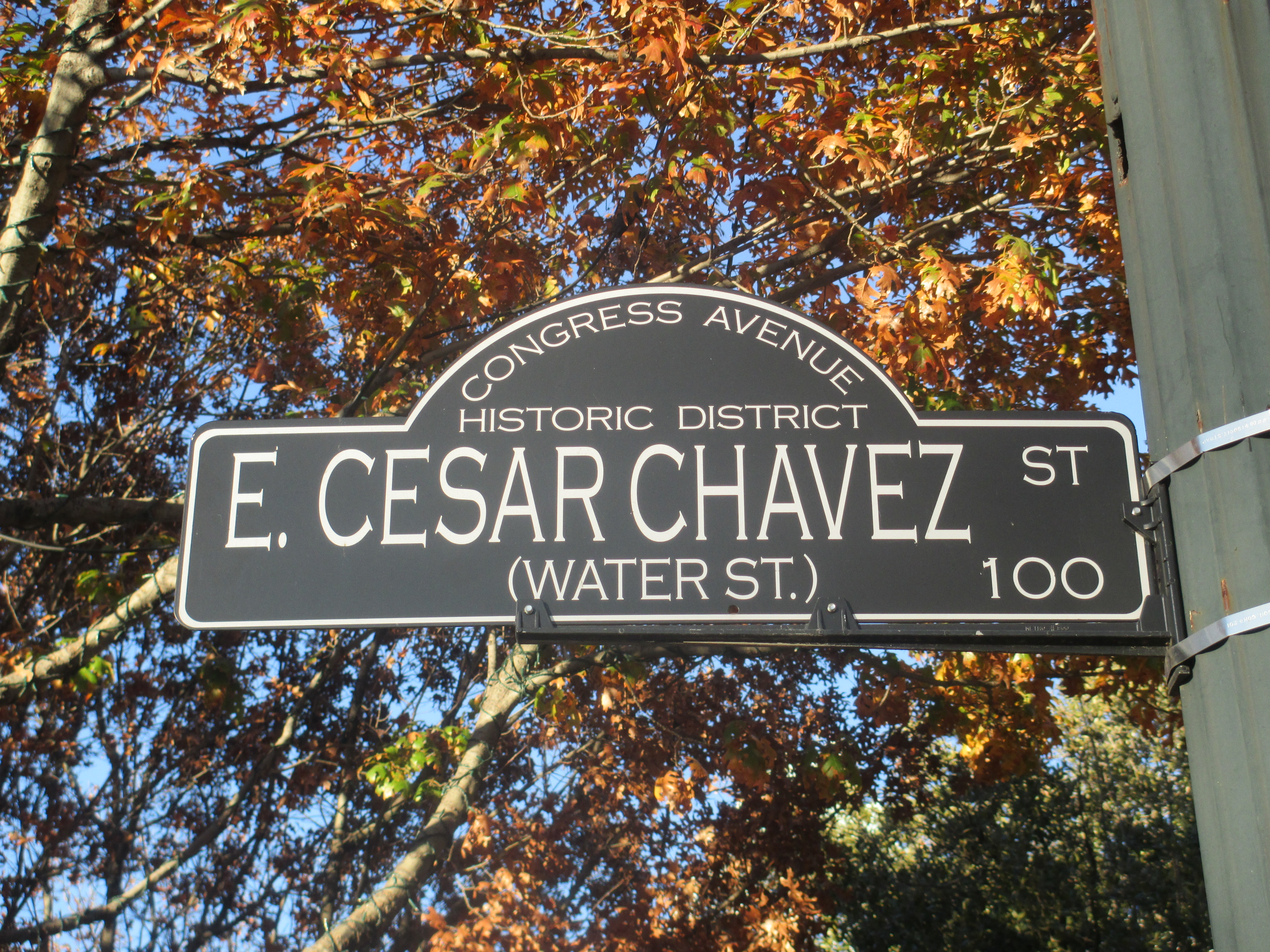 Canon camera; Cesar Chavez Street sign in Austin, TX, 1-18-2013